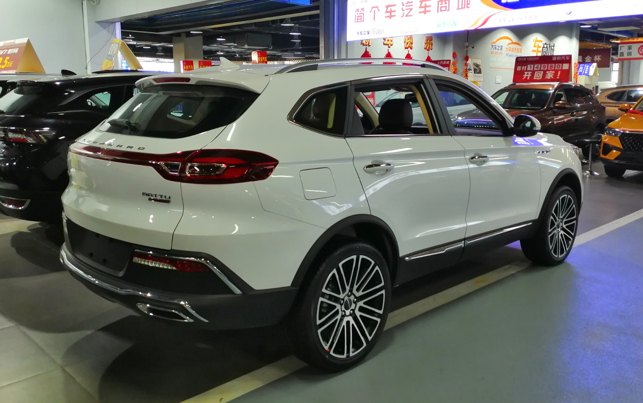 Leopaard Mattu photographed in Chongqing, China.